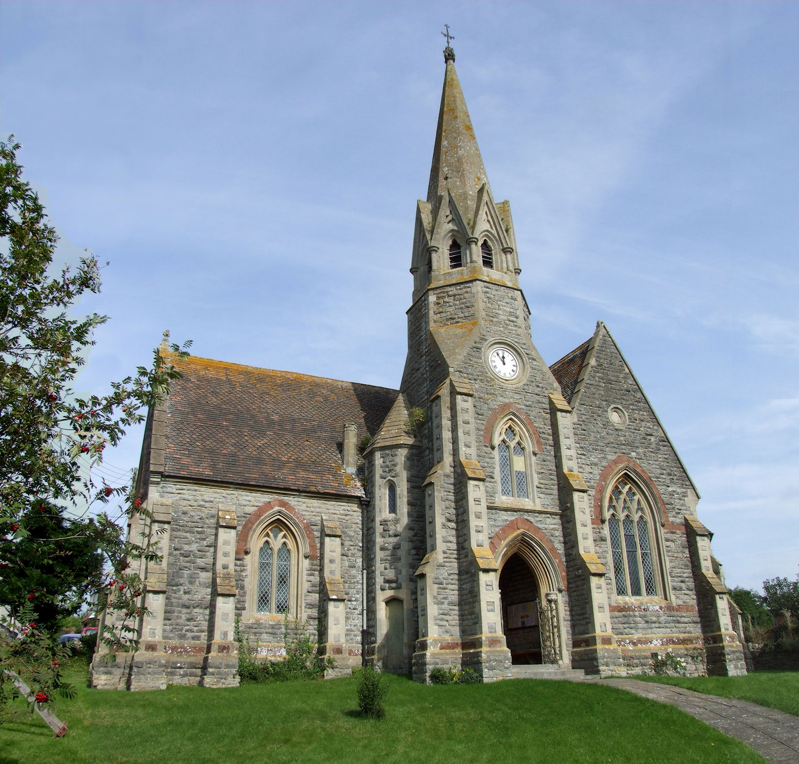 This pretty church dates from mid-Victorian times.